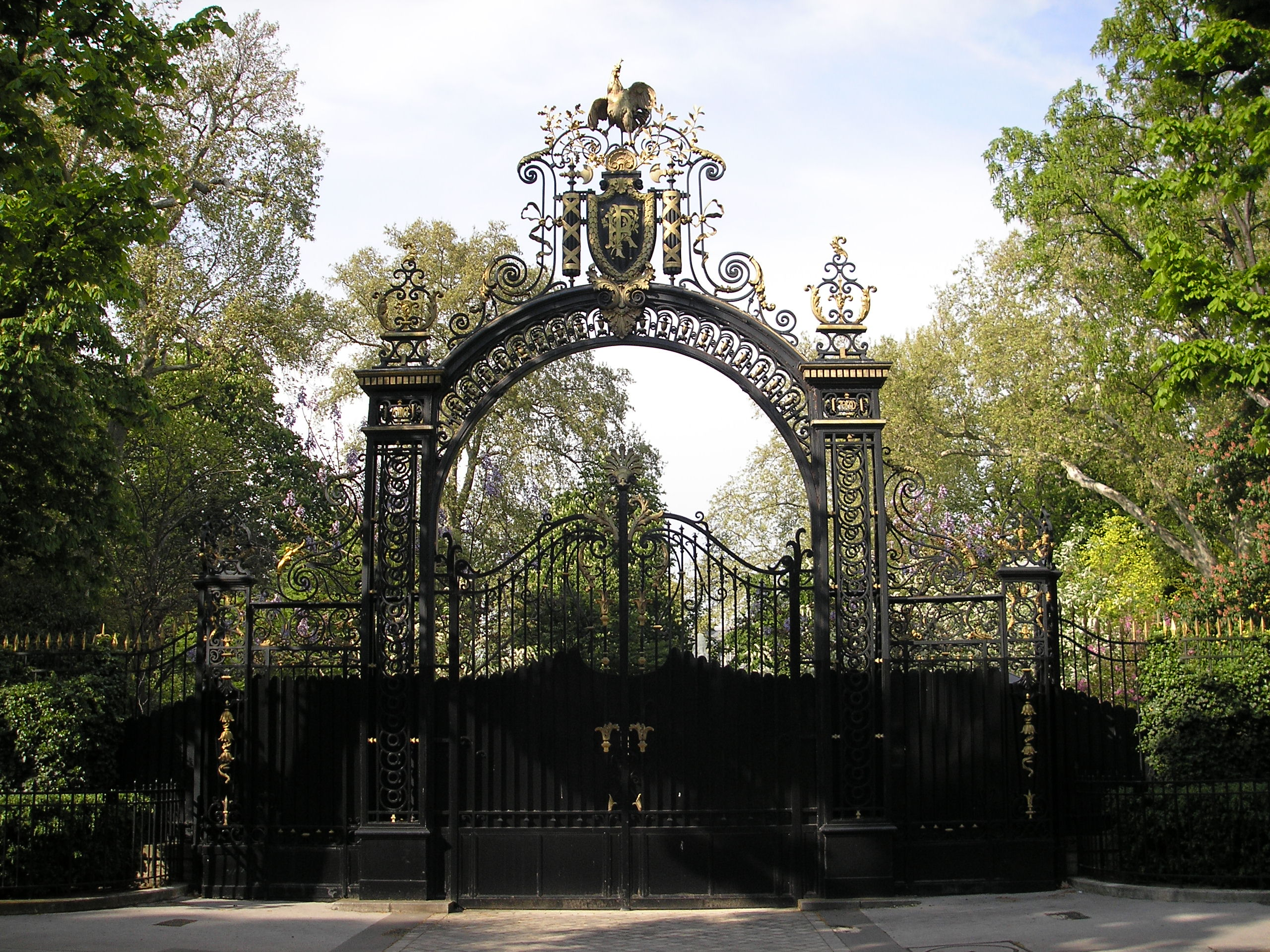 Gate to the garden at the Élysée Palace in Paris